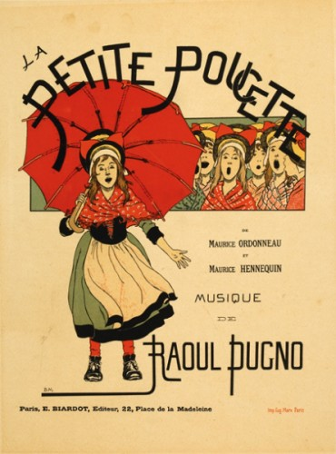 Lithograph for the operetta La Petite Poucette, from Les Maitres de l'Affiche series, printed by Eugene Marx, Paris